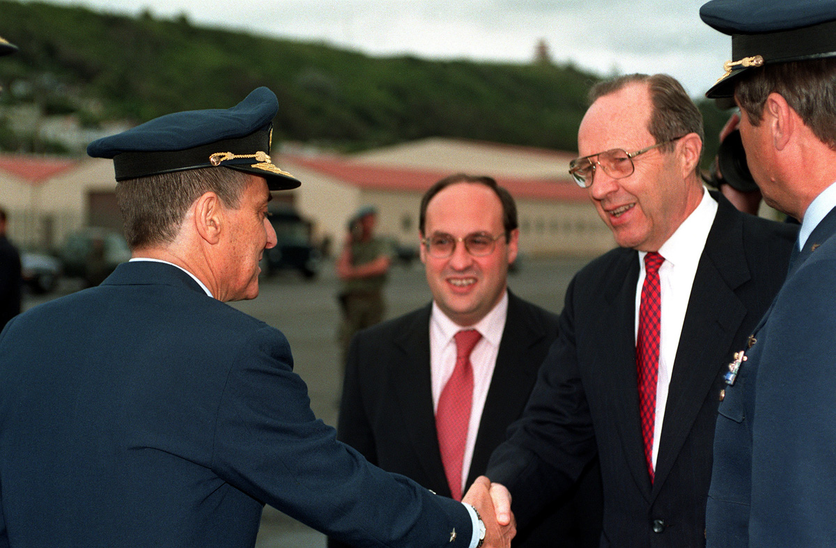 Brig. General Lindner Costa, Portuguese Commander Azores Air Zone, greets Secretary of Defense William Perry. Secretary of Defense Portugal, Antonio Vitorino, looks on. At Lajes Field, Azores, Portugal